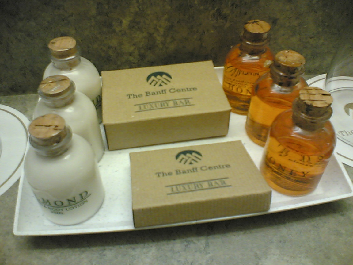 Taken at 10:46 PM on December 04, 2005; cameraphone upload by ShoZu